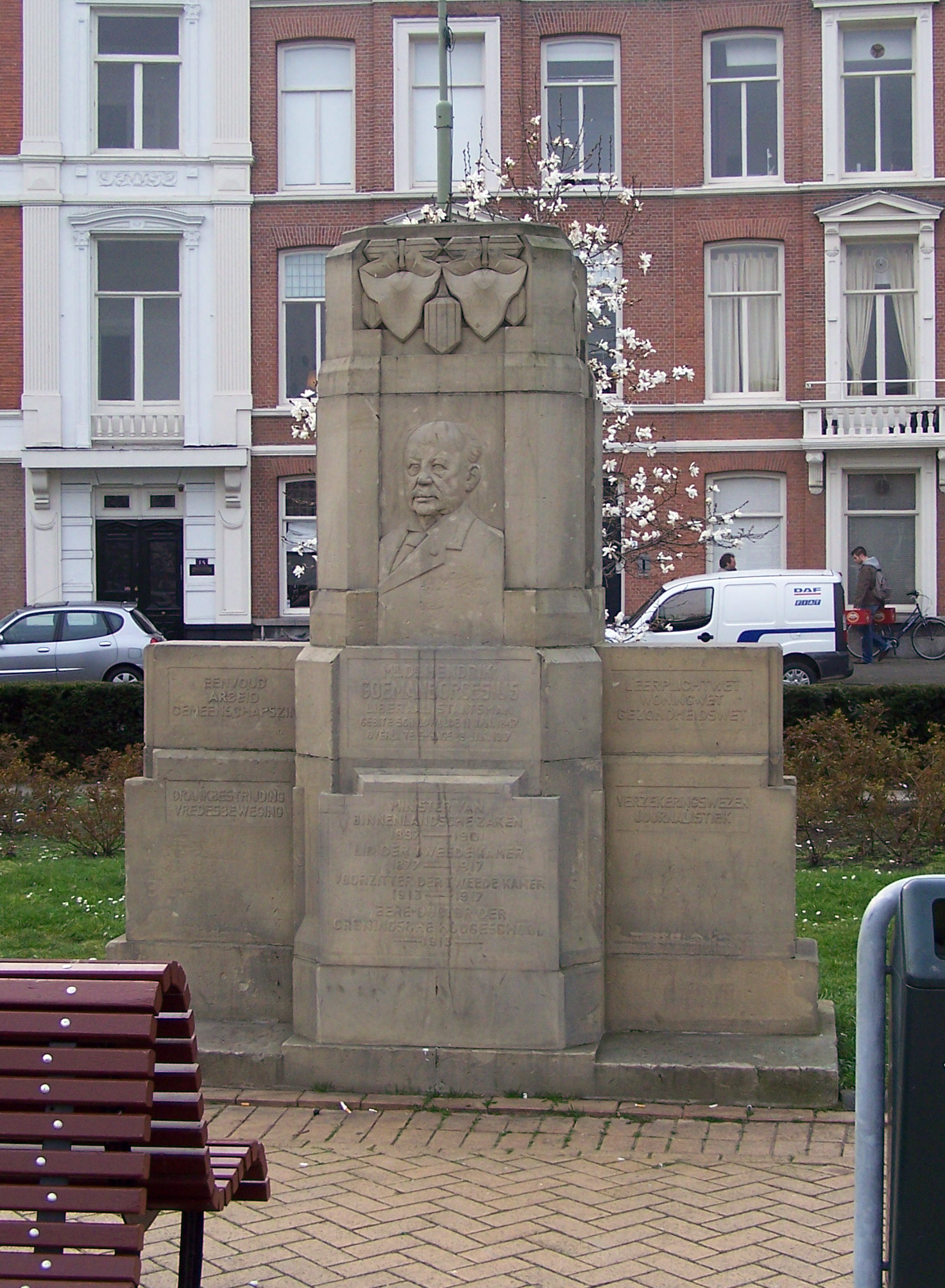 Monument (Relief) of the Dutch politician Hendrik Goeman Borgesius at the Prins Hendrikplein in The Hague, made by J.C. Altorf in 1924.